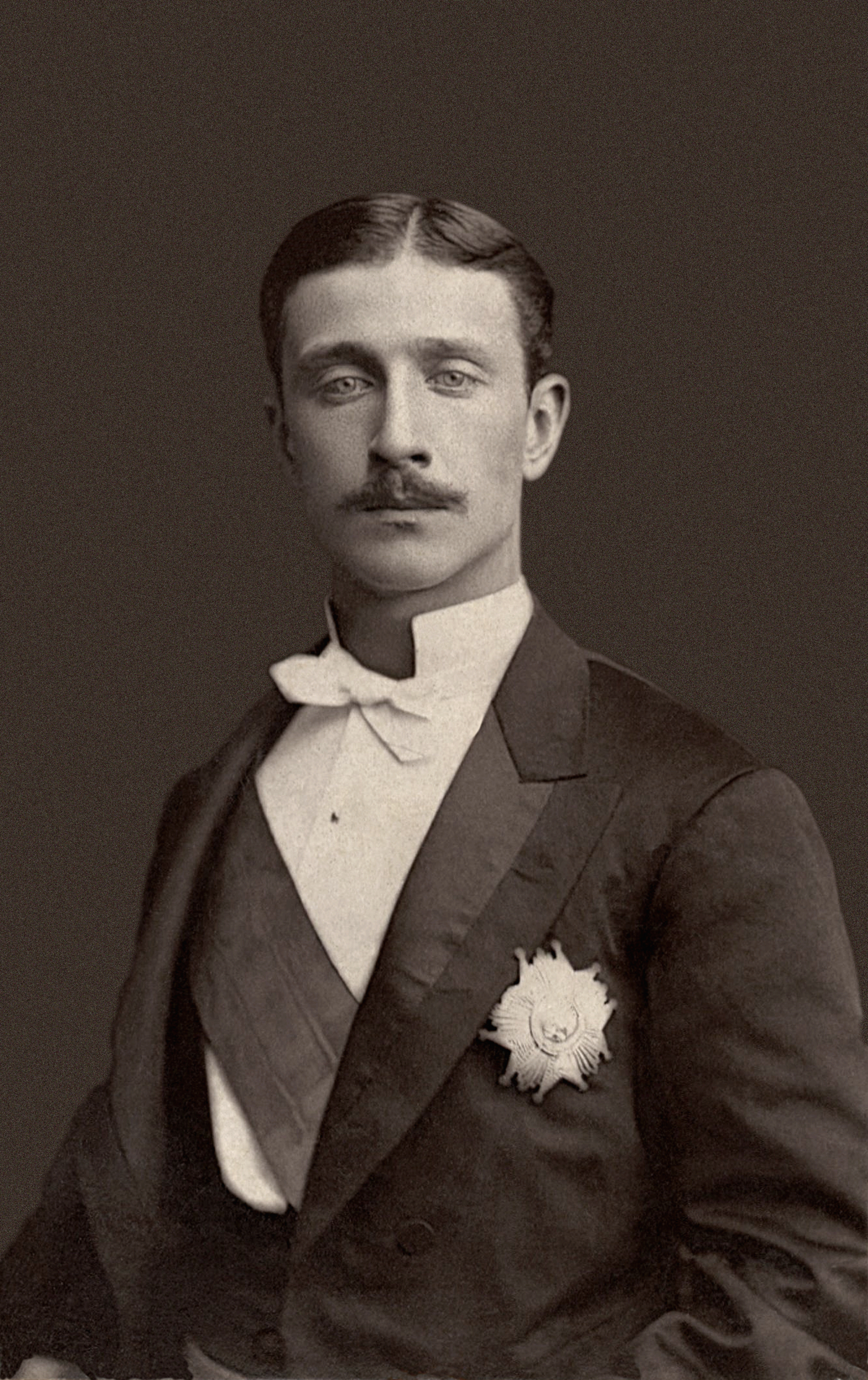 Louis-Napoléon Bonaparte (1856-1879), Prince Imperial, unique child of Napoleon III of France and his Empress consort Eugénie.